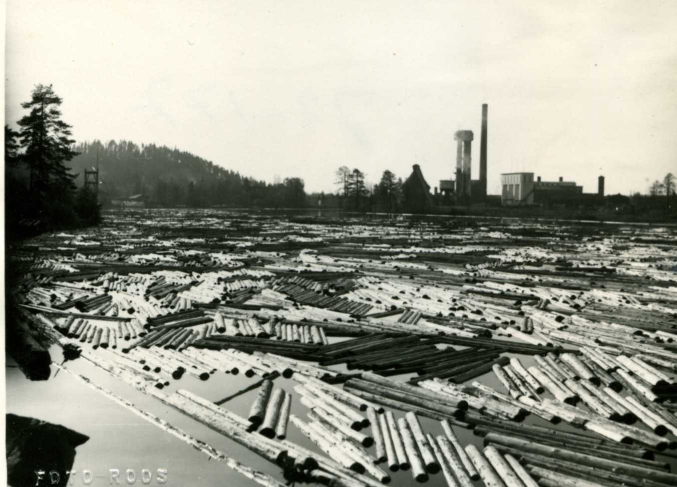 Timber floating in Koskikeskinen in Kankarisvesi, Jämsänkoski, Finland in 1938